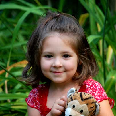 Georga's second birthday - when Anna decided to start writing on Wikipedia.